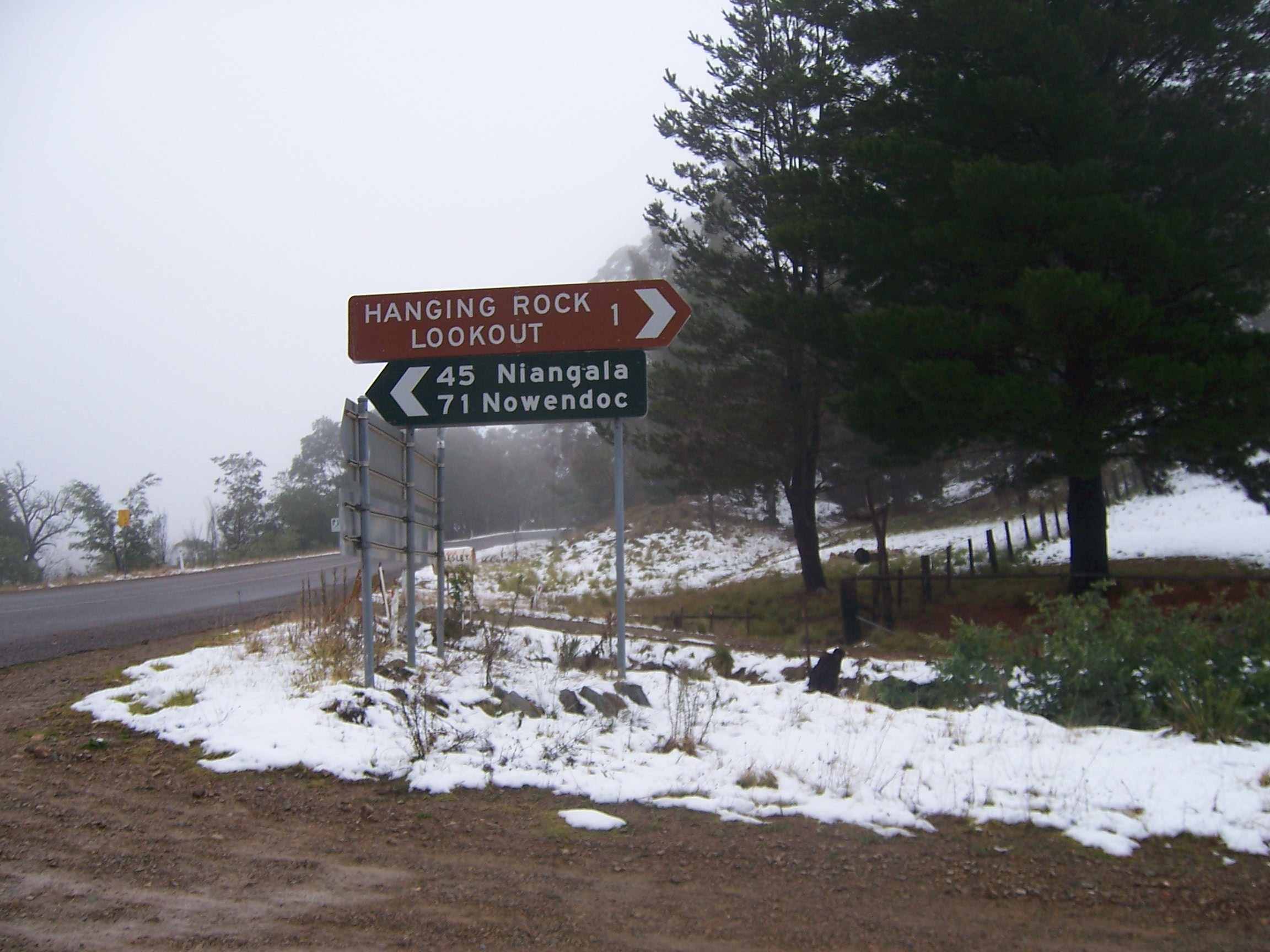 Snow at Hanging Rock (NSW, Australia) and Surrounds in June 2007.